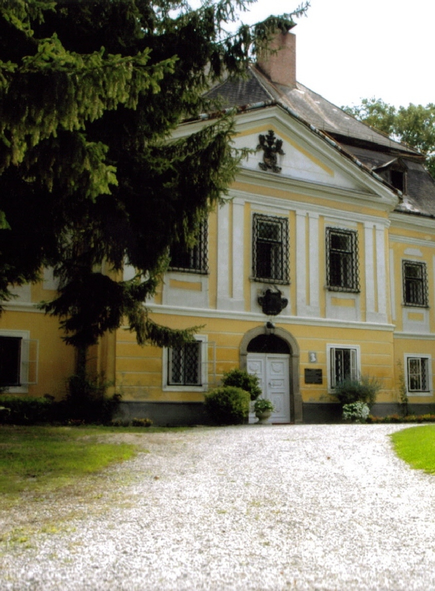 Platthy-Castle in Bánfalva